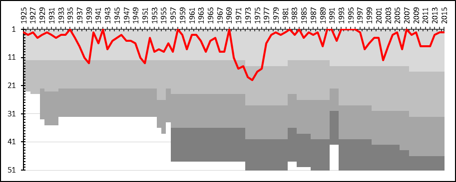 A chart showing the progress of IFK Göteborg through the swedish football league system. The different shades of gray represent league divisions.